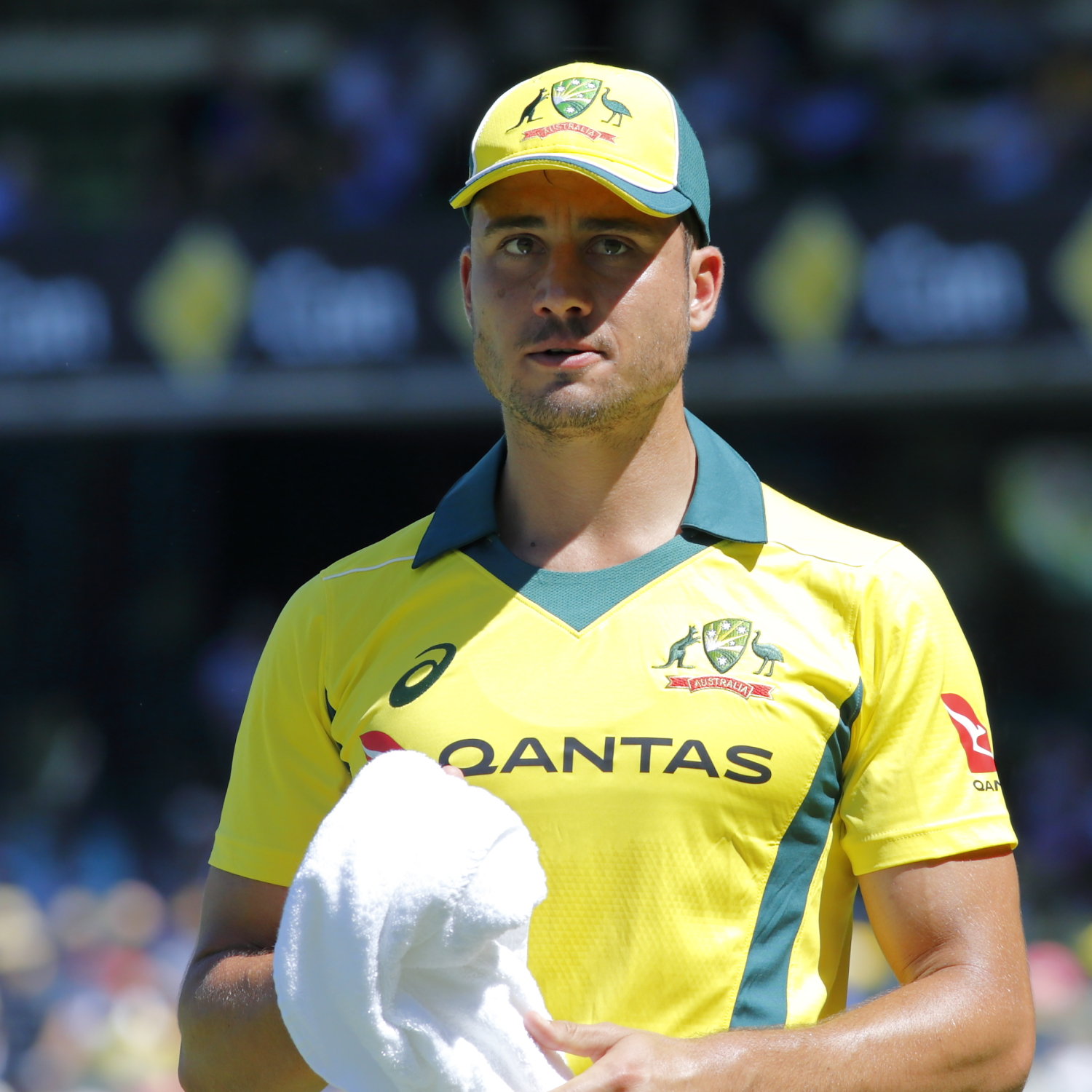 Marcus Stoinis during AUSvENG ODI